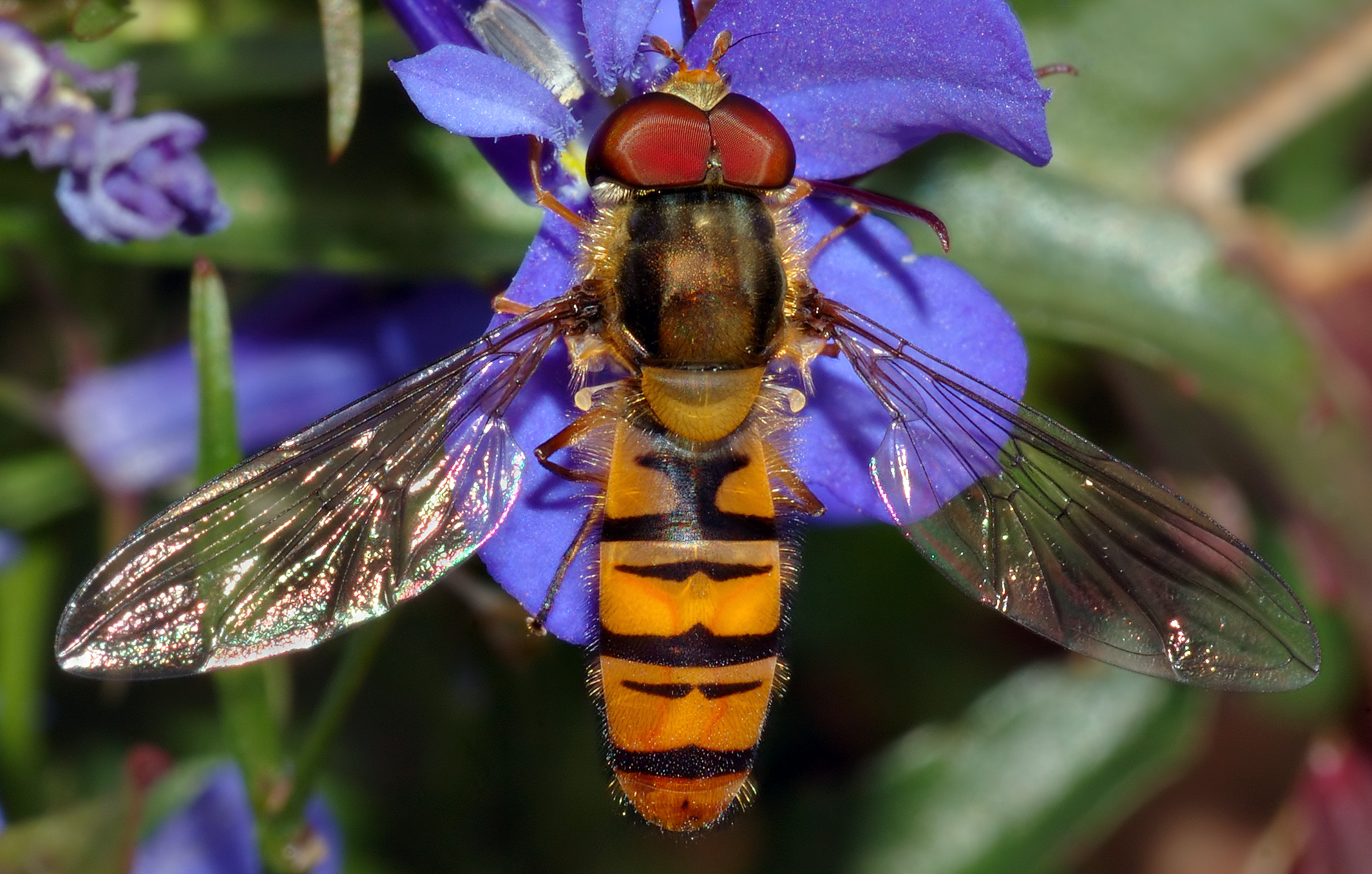 This image shows a 12 mm large hoverfly called marmelade fly (Episyrphus balteatus) from top.